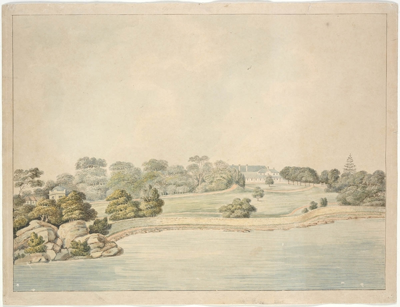 Watercolour drawing of Government House, Sydney from the Cove (March 1819) attributed to Joseph Lycett